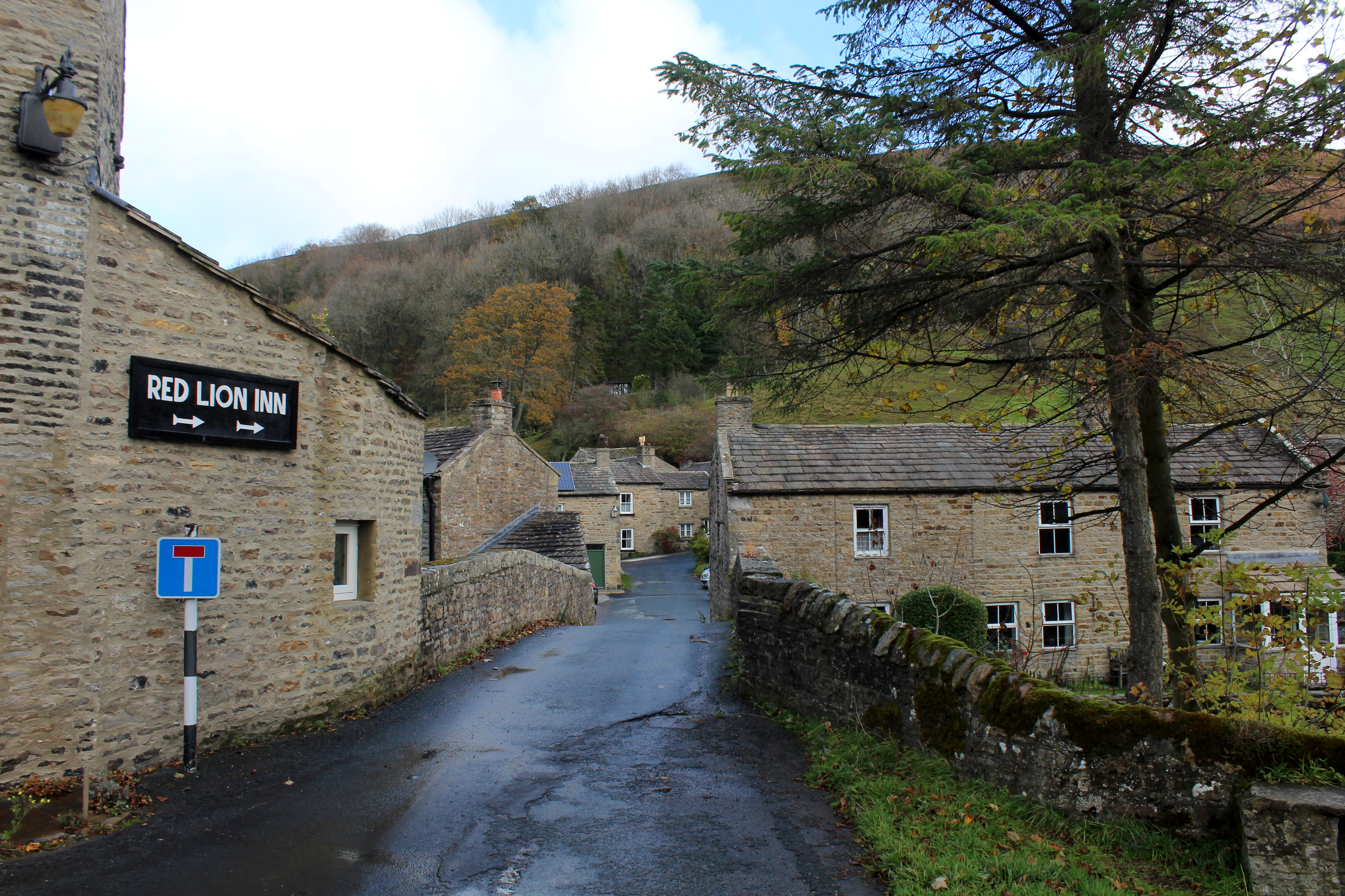 Langthwaite